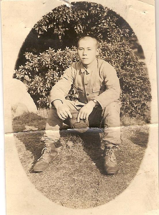 Lee Chul-seung's Youth's